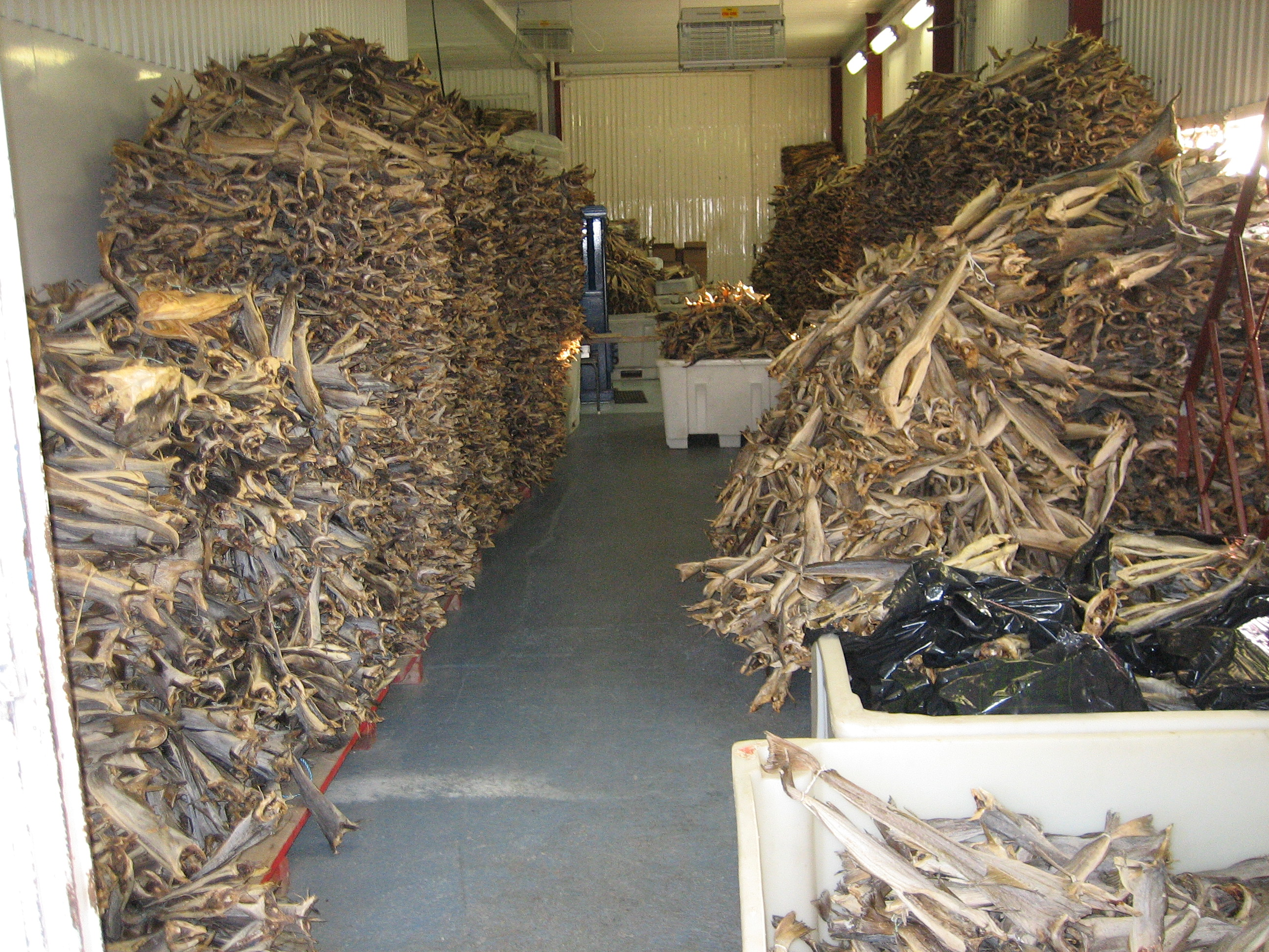 Stockfish warehouse in Forsøl, photo by me, July 2006. Manxruler 14:46, 17 April 2007 (UTC)